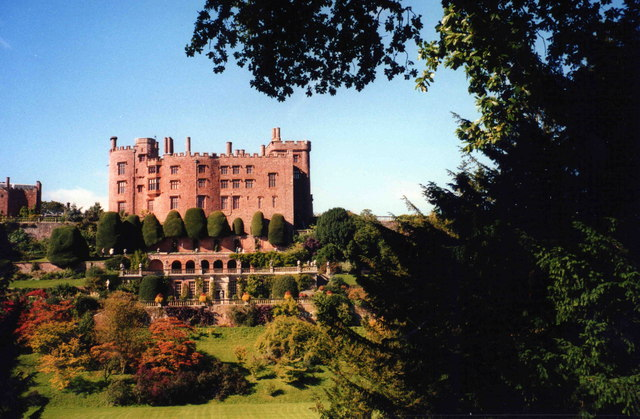 Powys Castle